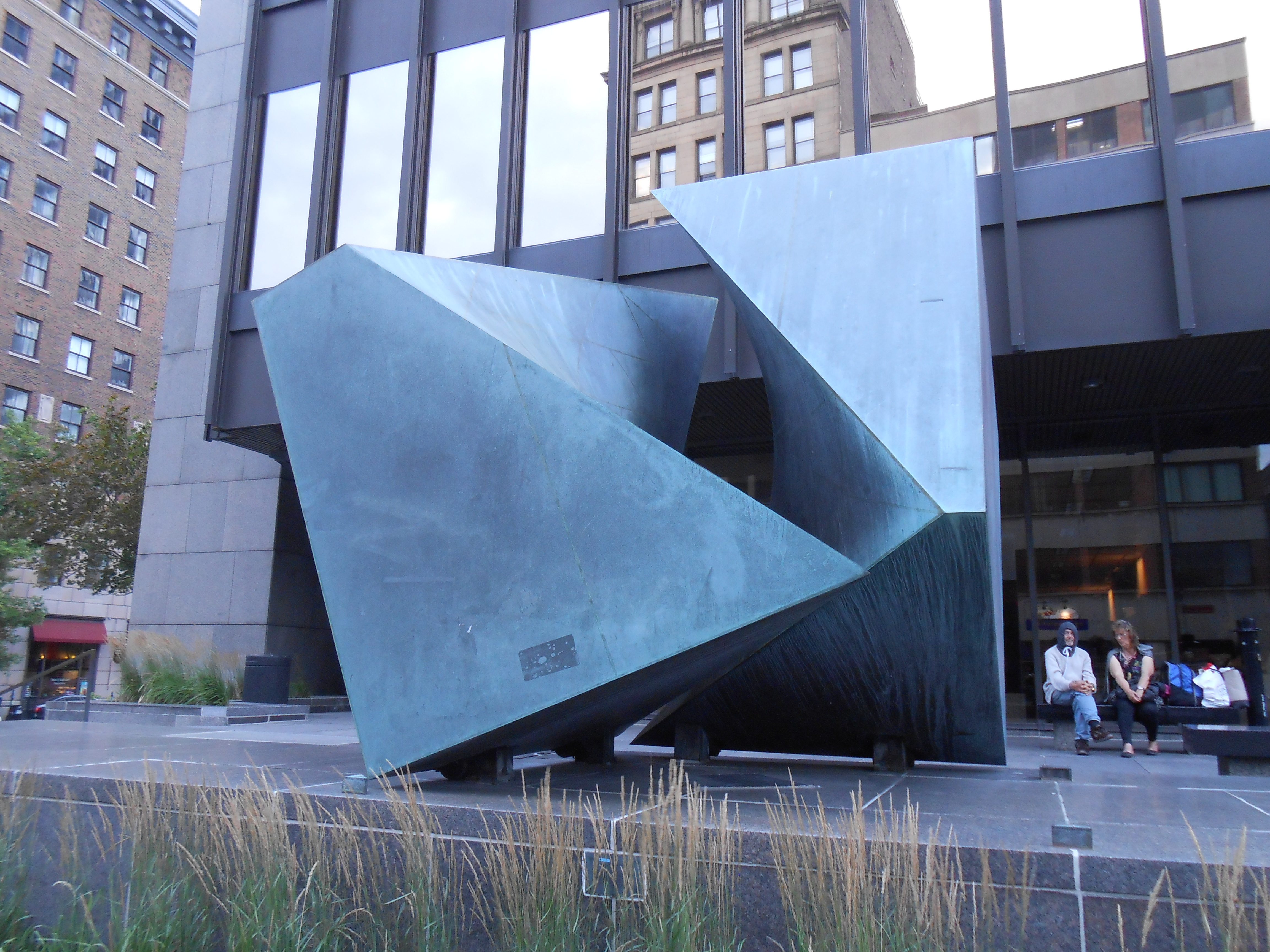 Allegrocube (1973), by Charles Daudelin, in front of the Courthouse, 1 Notre-Dame Street East, Montreal